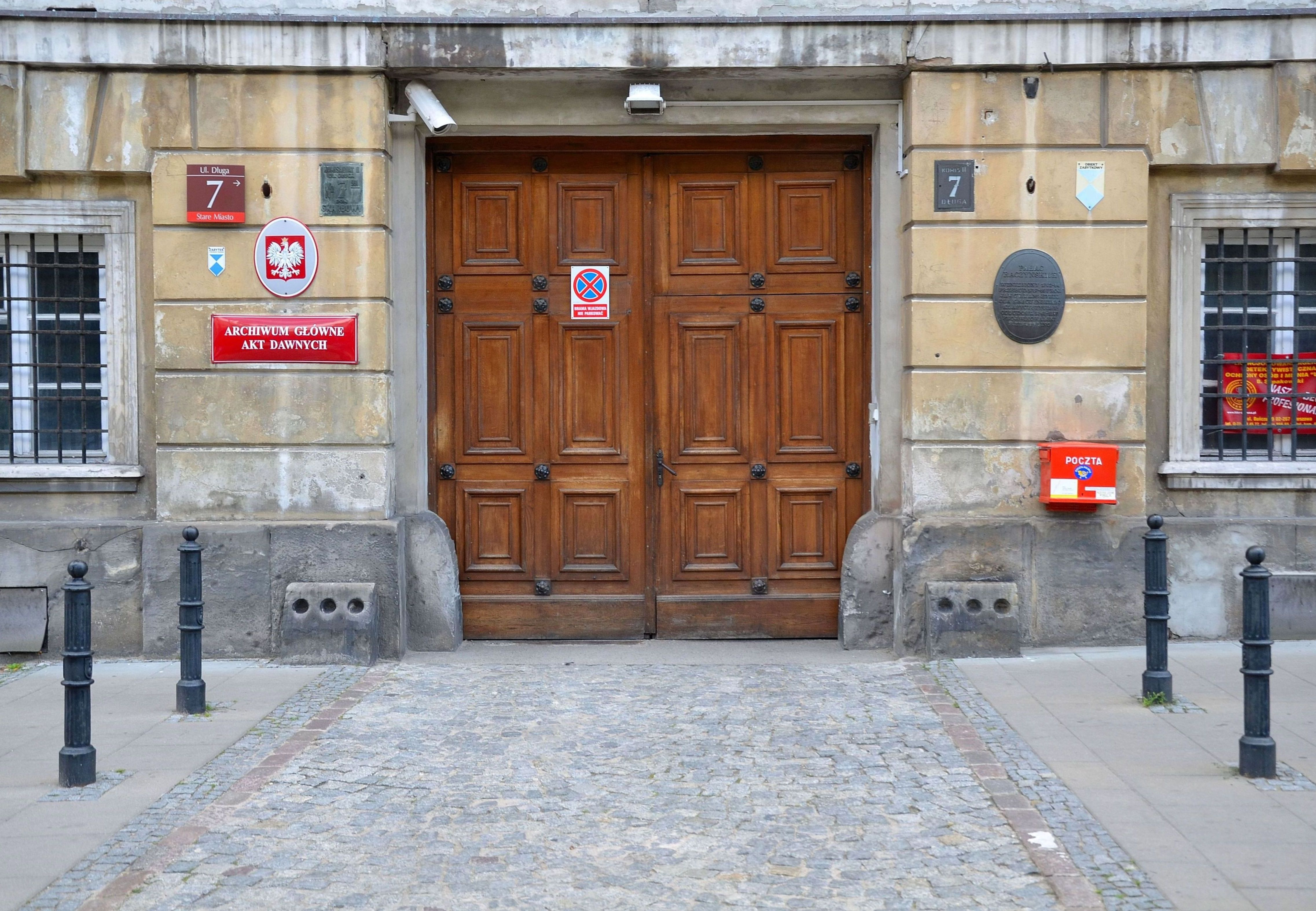 Torch extinguishers at the entrance to the Raczyński Palace in Warsaw